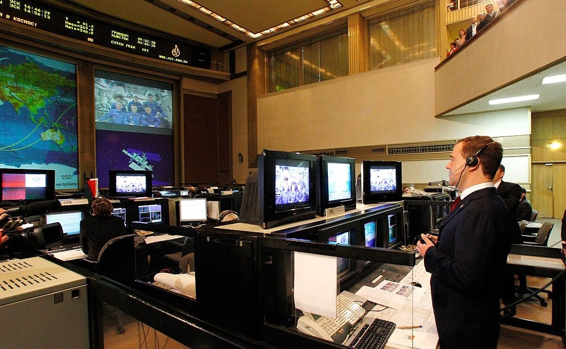 Visit to the Mission Control Centre. During a conversation with the International Space Station crew.